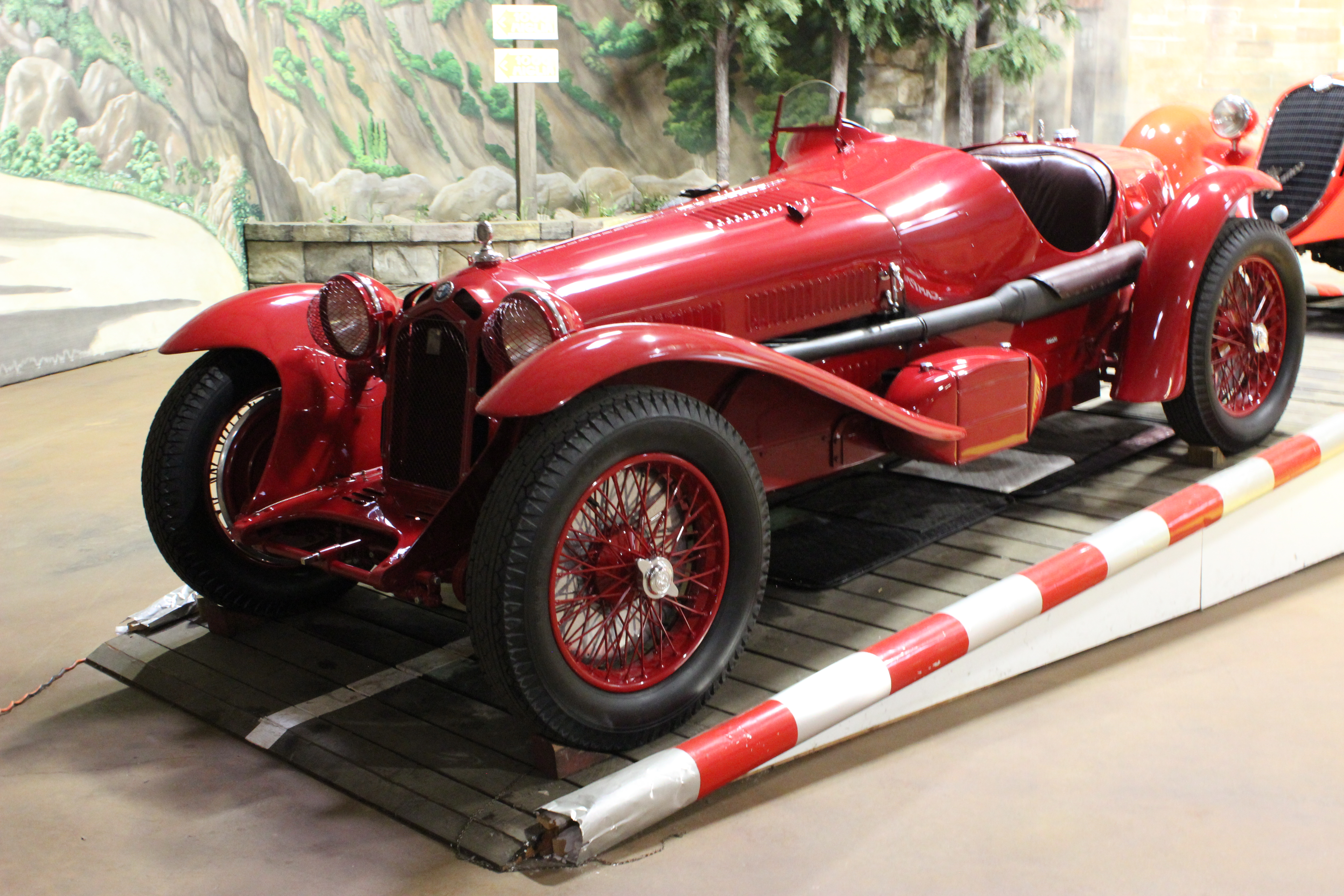 The 1933 Alfa Romeo 8C 2300 Monza s/n 2211112 on display at the Simeone Museum in Philadelphia